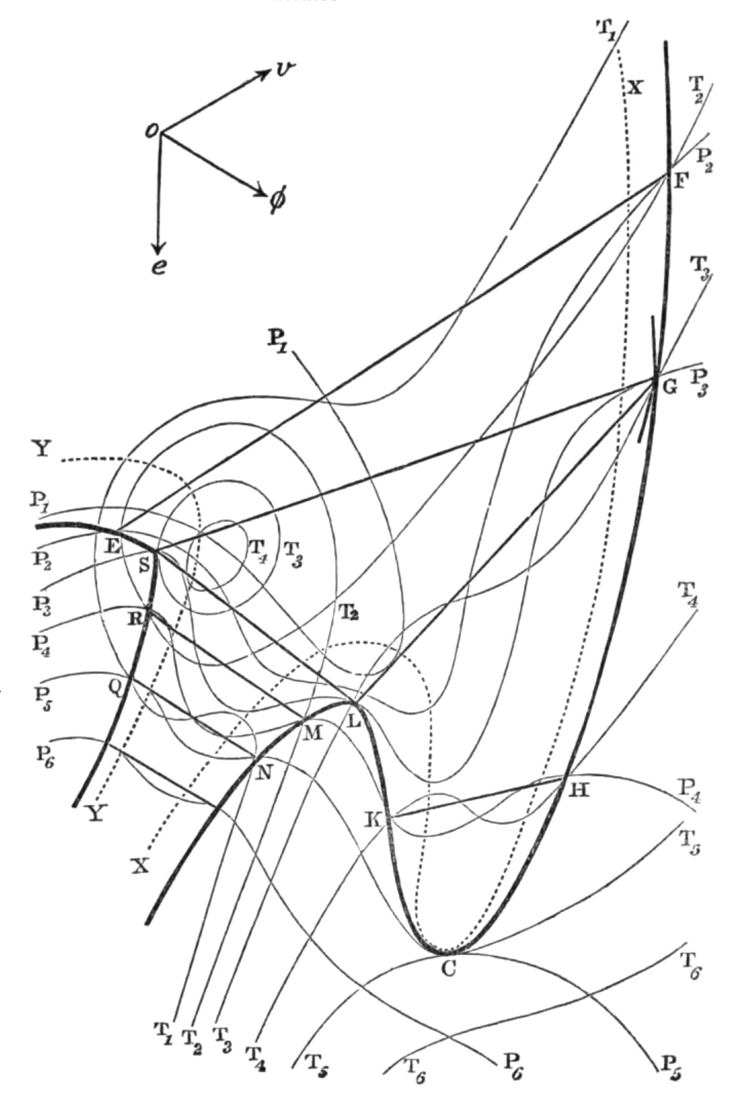 This is James Maxwell's sketch of relevant features on his thermodynamic surface, from his book Theory of Heat.